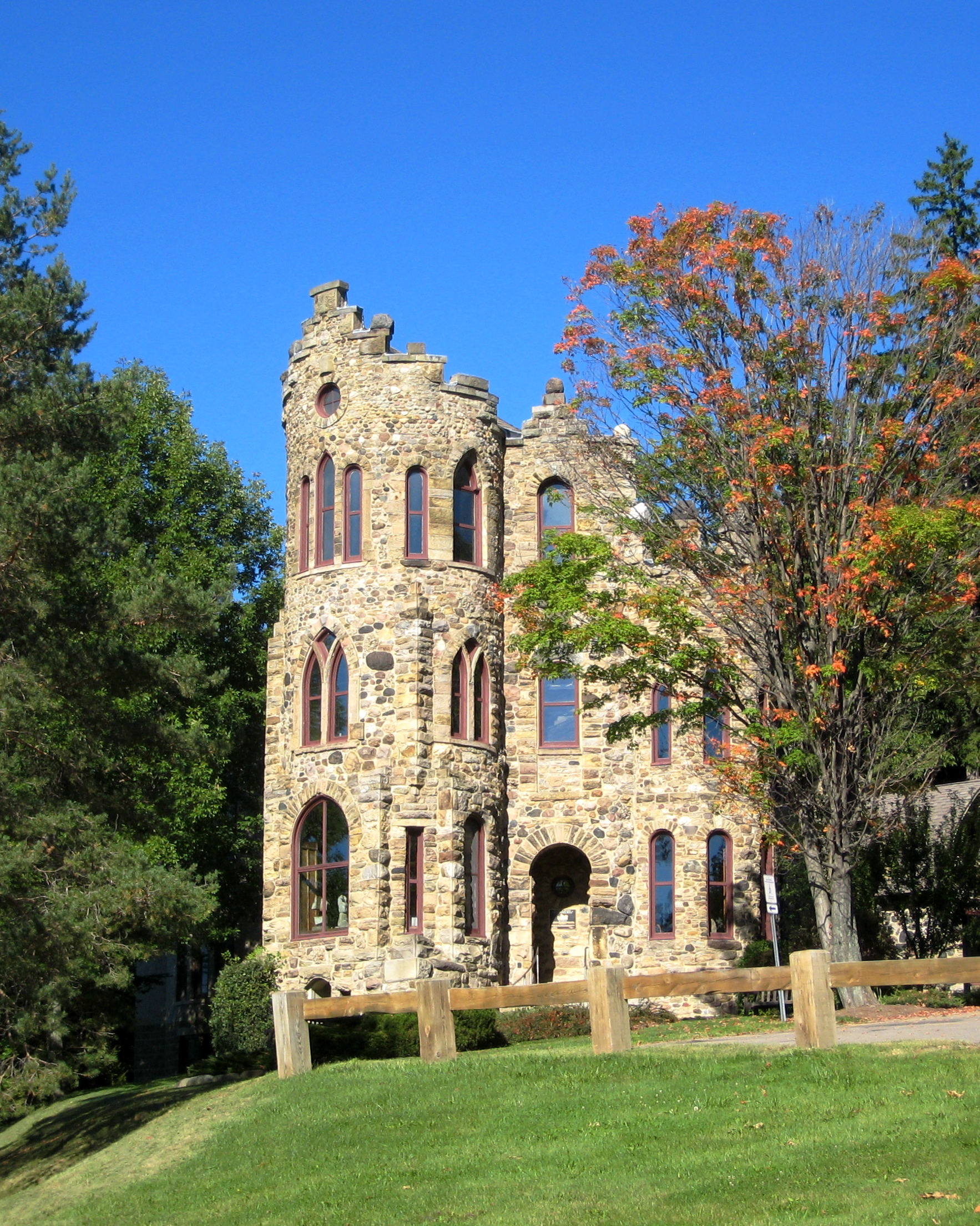 Alfred University's Steinheim Building—often called "the castle"—houses the Career Development Center.